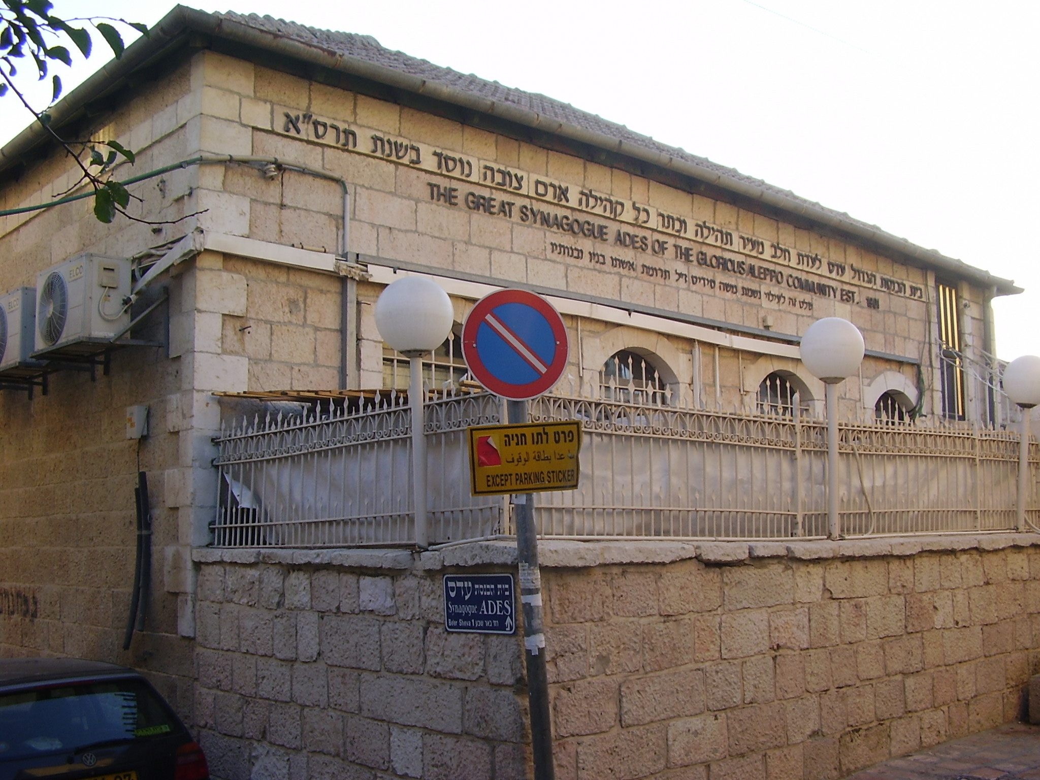 ades synagogogue in nahlaot neighbourhood, jerusalem.